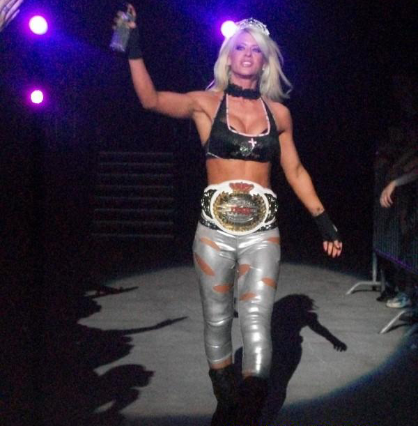 Angelina Love spraying the TNA fans.